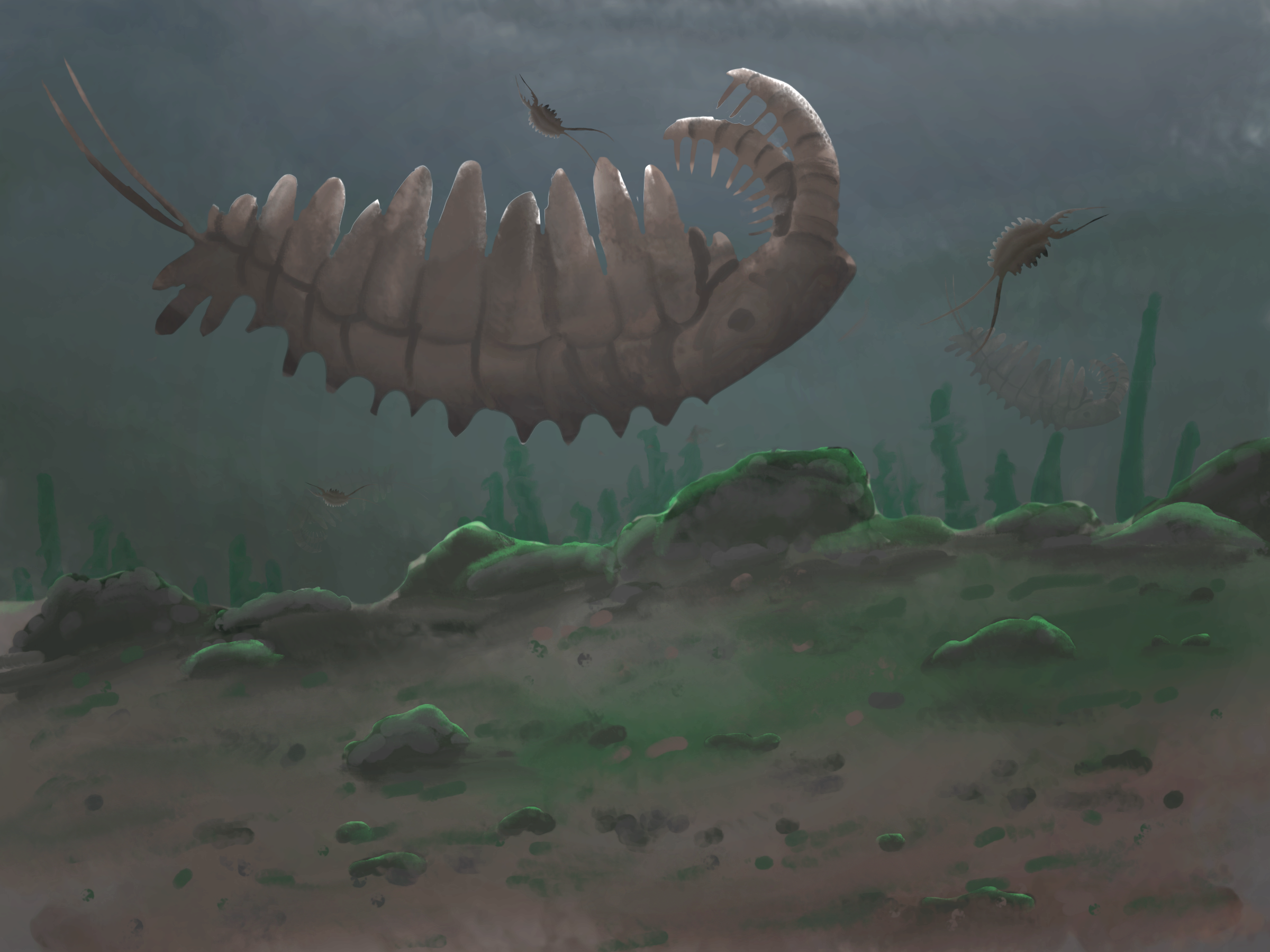 Sirius Passet during the anoxic event. Featuring Tamisiocaris and Kerygmachela.